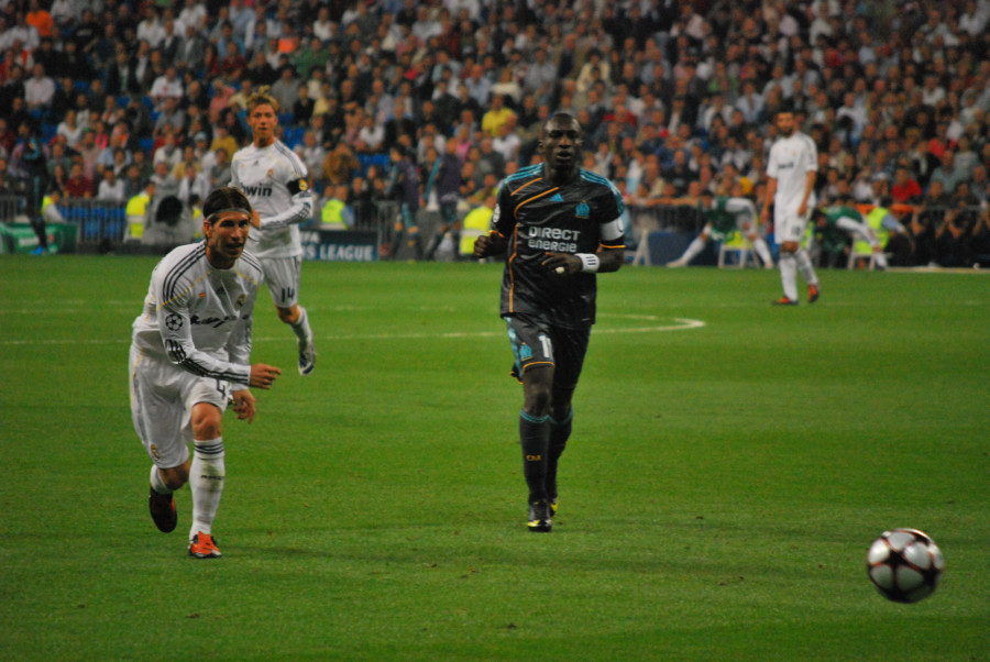 Champions League Real Madrid 3 - O.Marsella 0 30/09/09